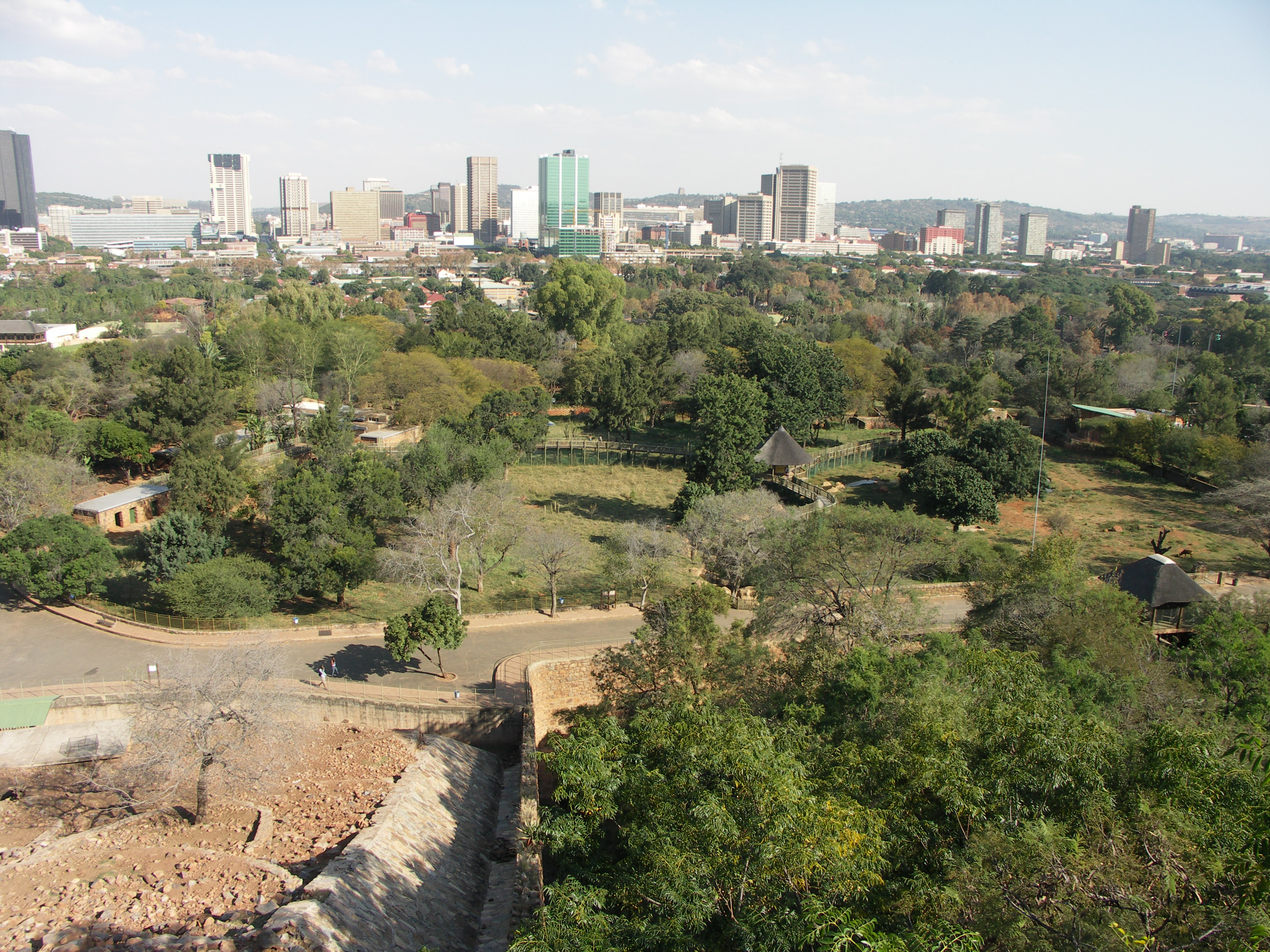 View over a portion of the National Zoological Gardens of South Africa with Pretoria in the background